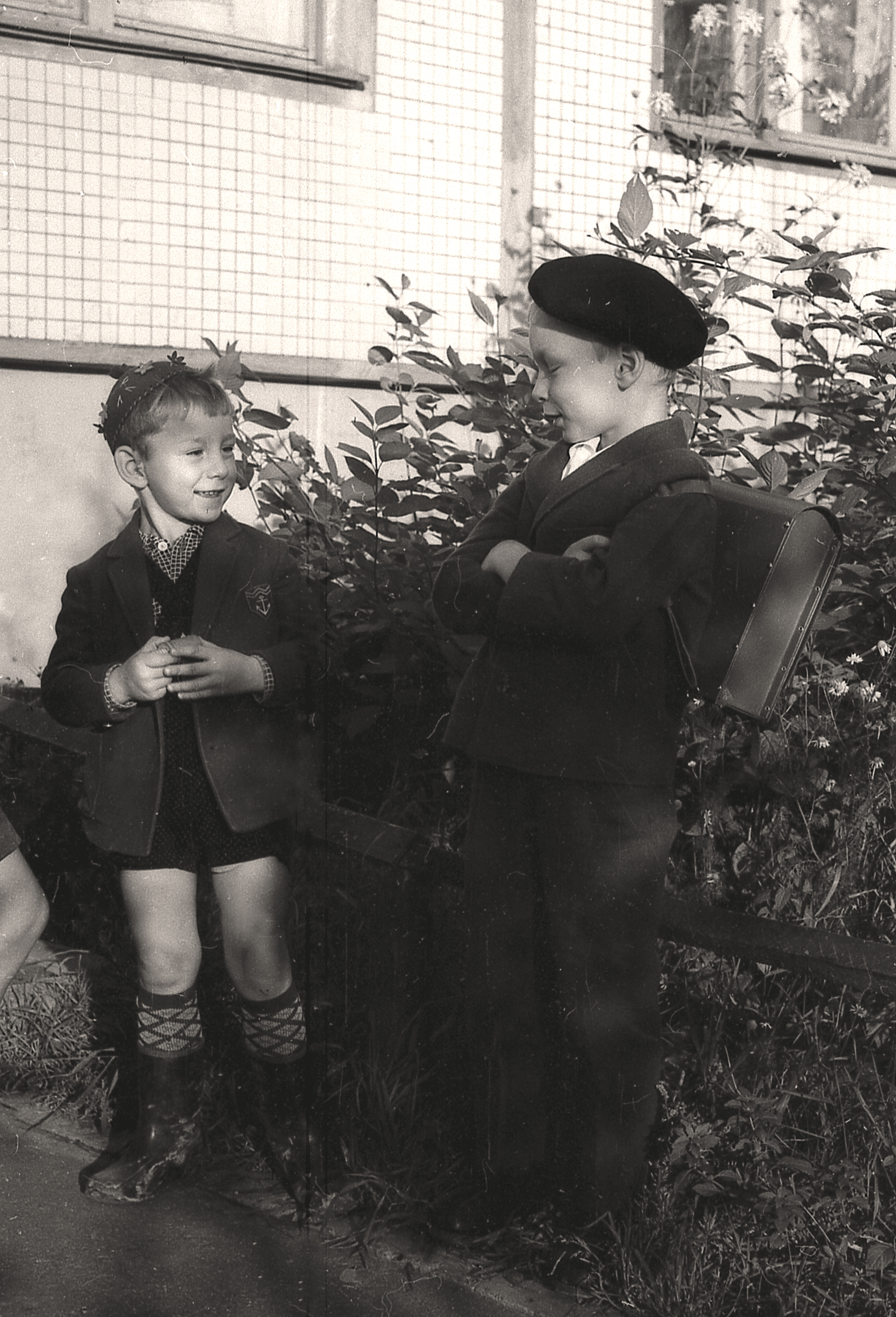 Envy and Self-satisfaction